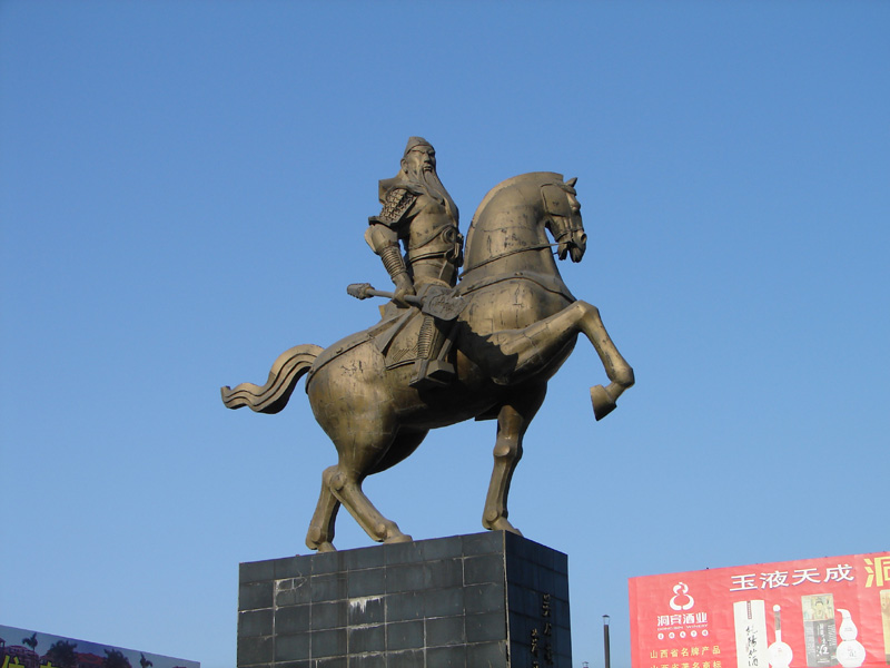 Ready to greet everyone at the train station.